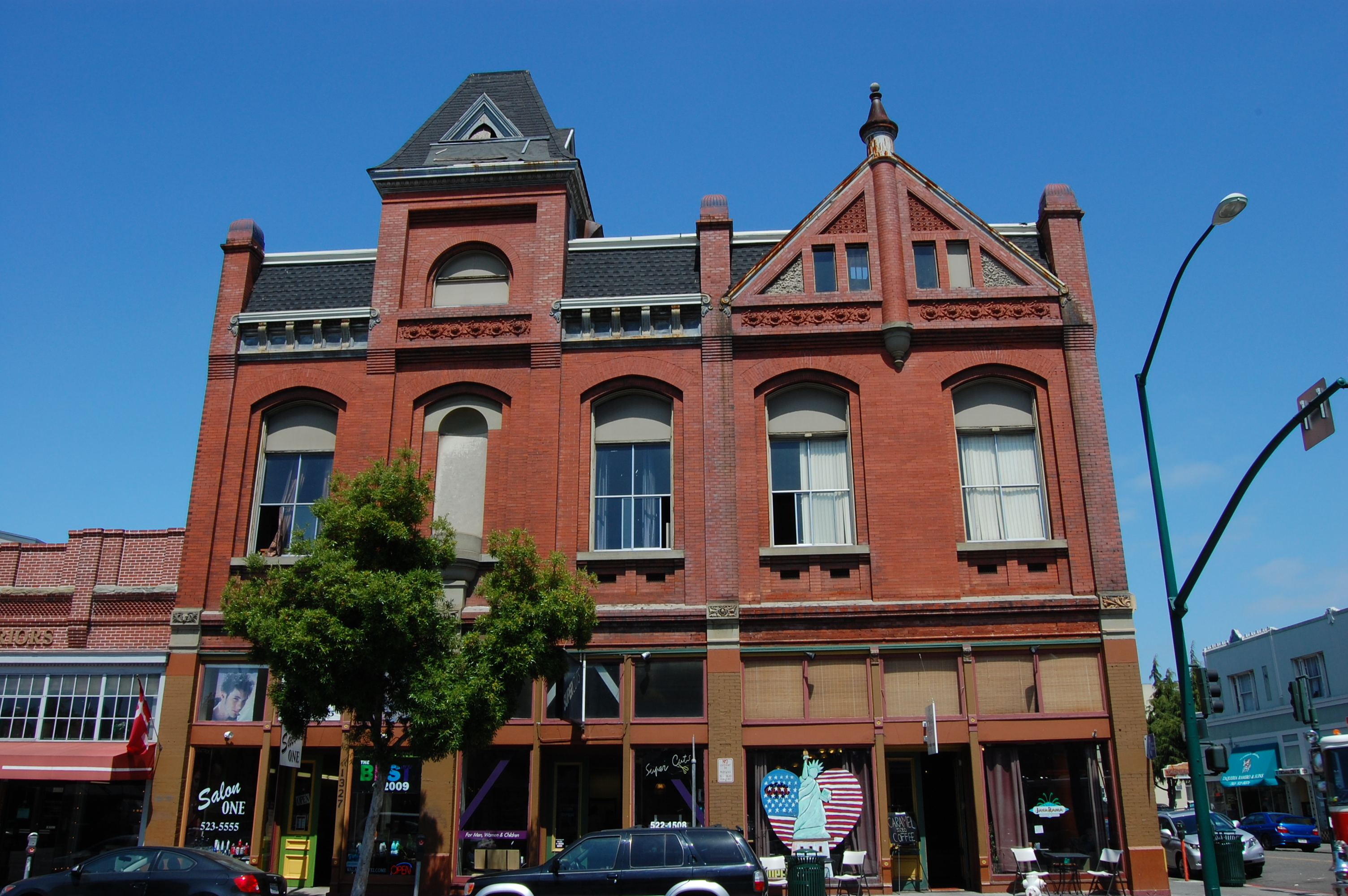 Masonic temple and lodge. 1329/1331 Park Street and 2312 Alameda Avenue. Alameda, California, USA